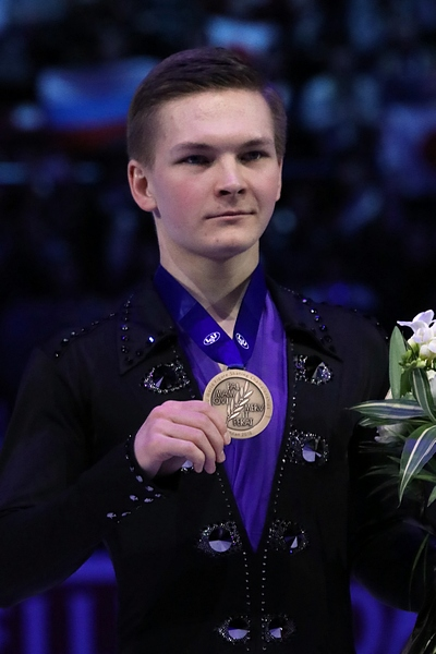 Photos – World Championships 2018 – Men (Medalists)